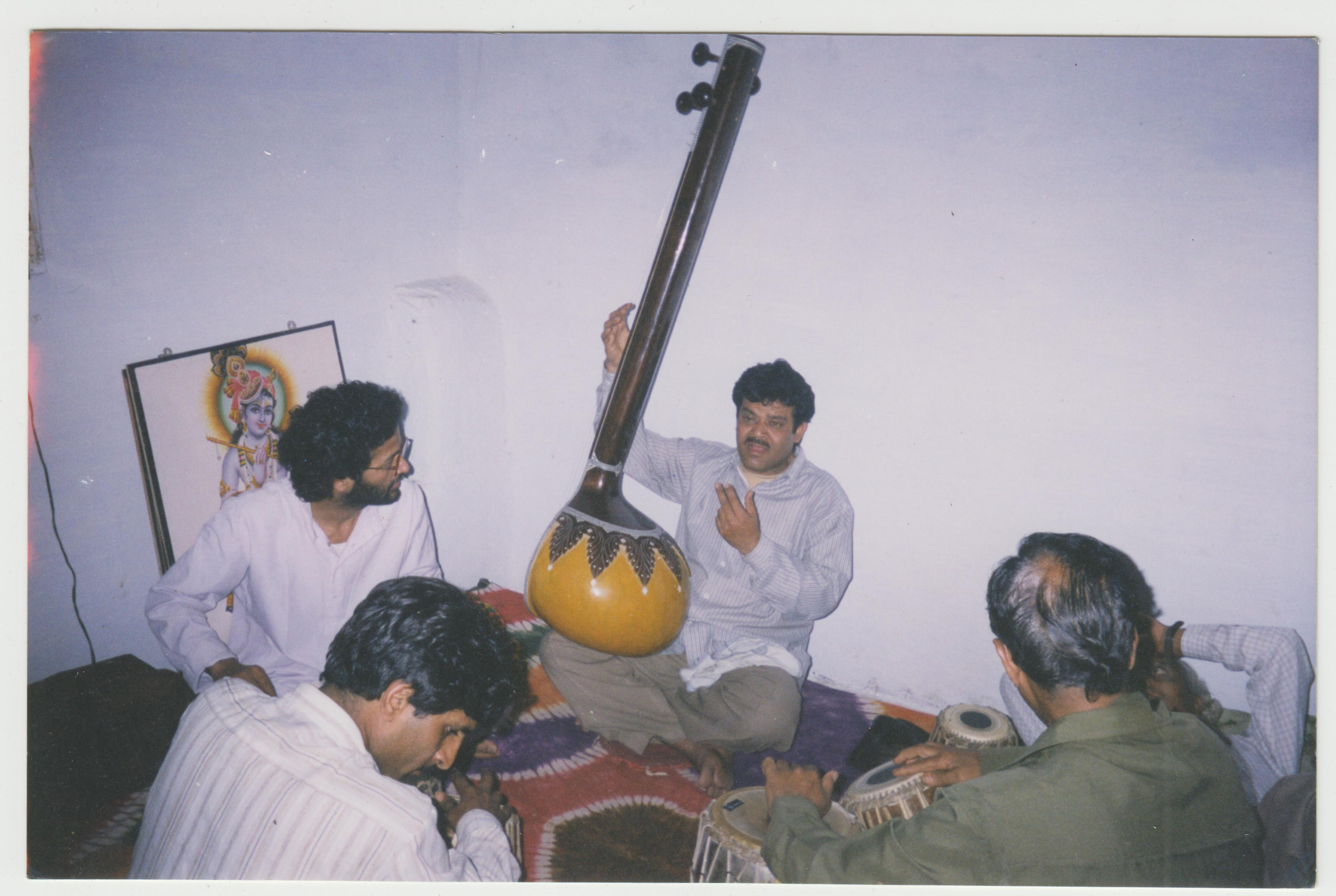 Photo is taken from Pt.Santosh Joshi